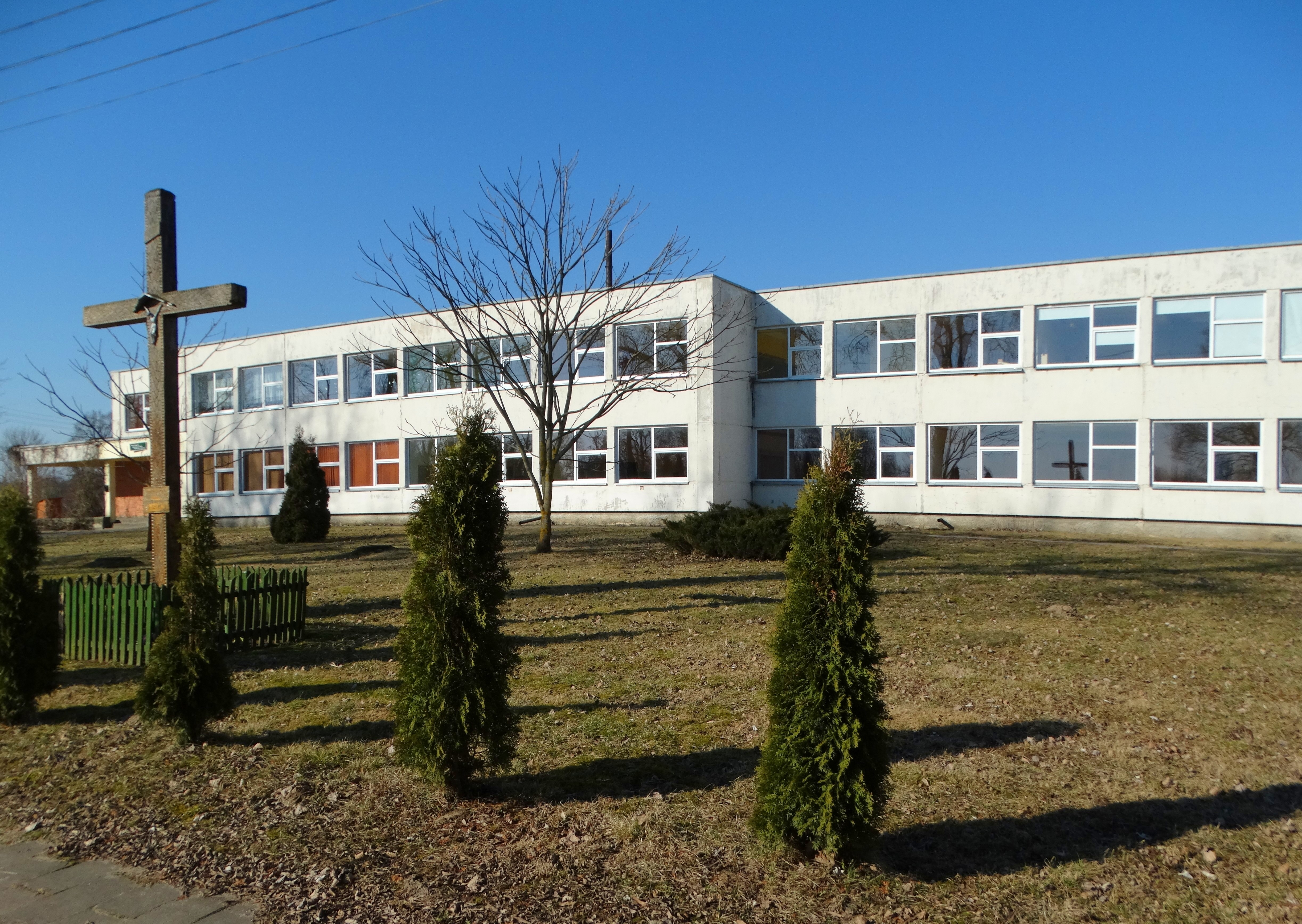 Gailiai, school, Kelmė District, Lithuania